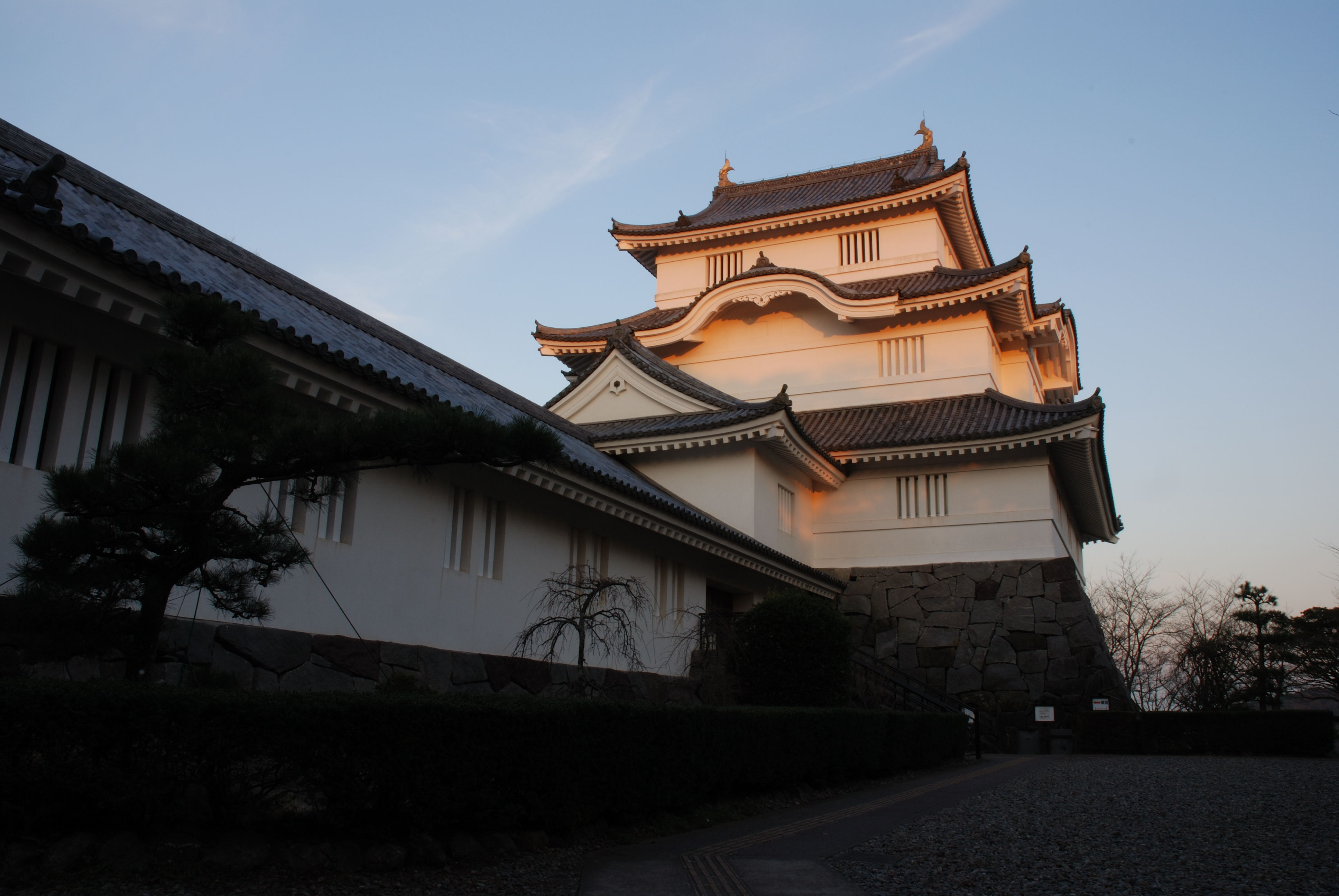 Otaki castle tenshu